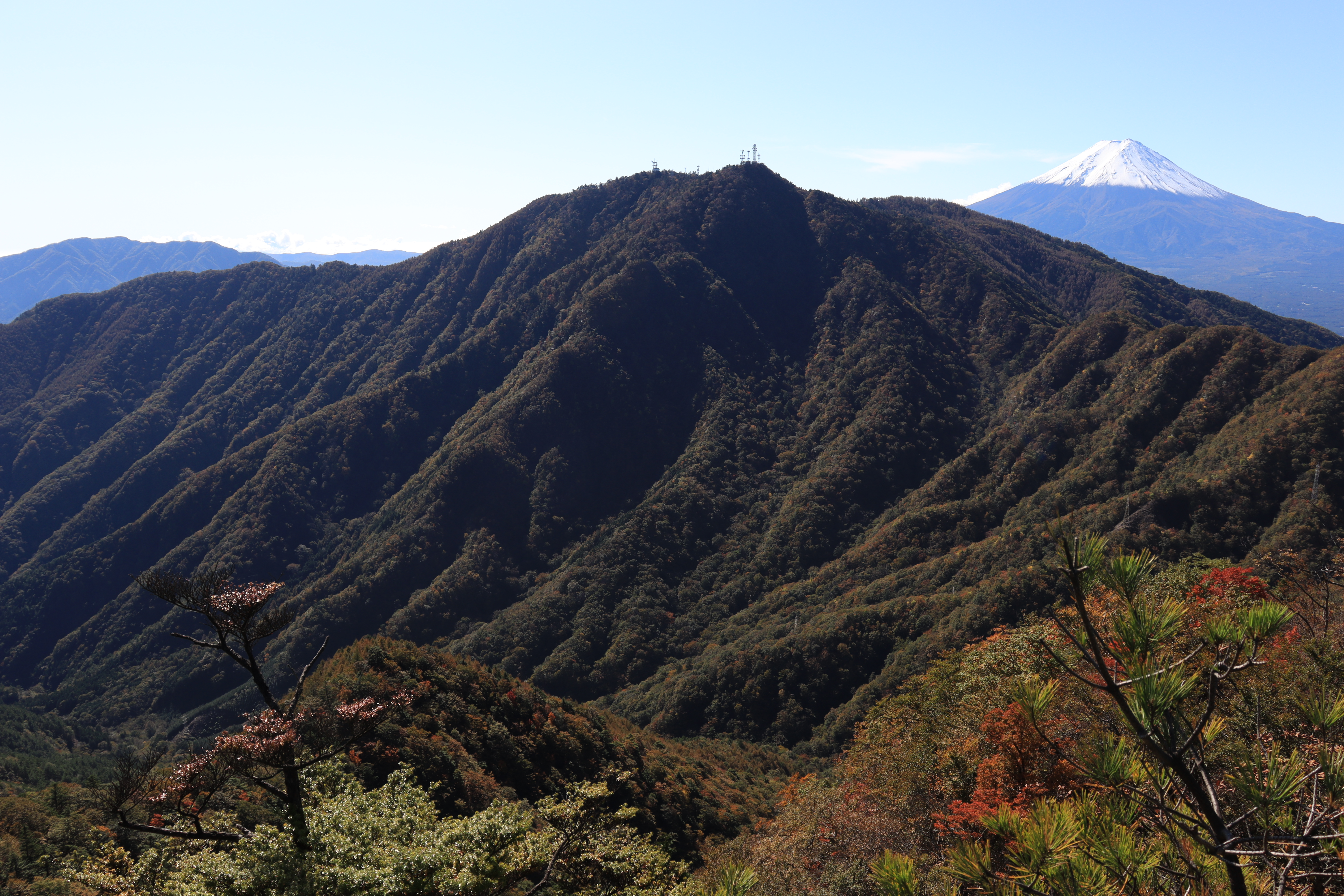 Mount Osutaka (Mount Mitsutoge) and Mount Fuji seen from Mount Honjagamaru in Yamanashi Prefecture, Japan.